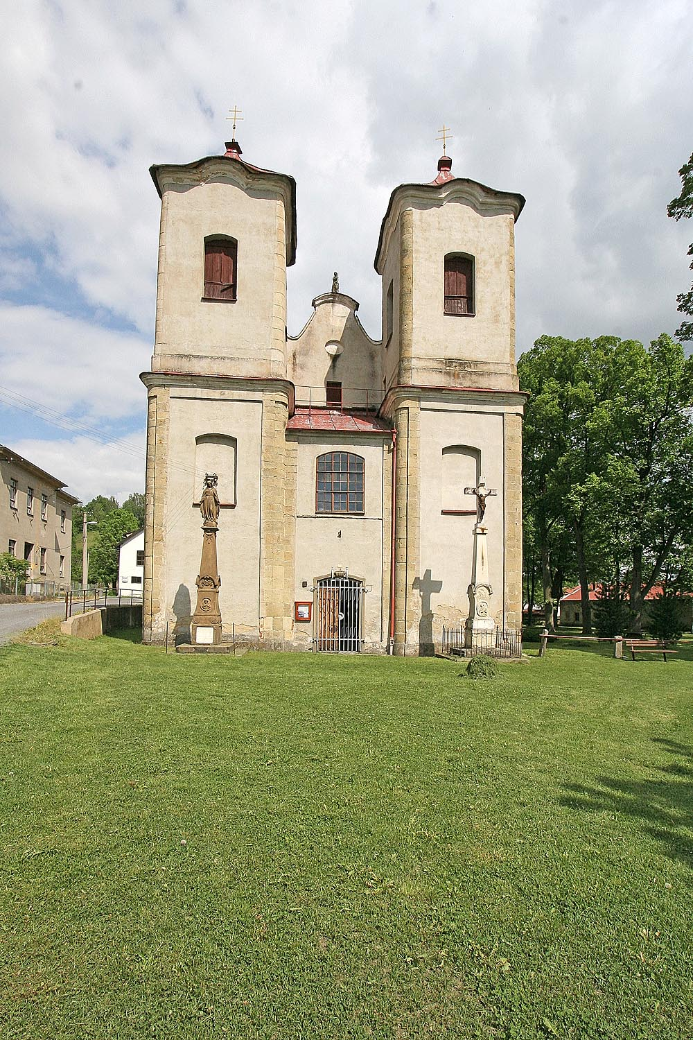 All Saints church in Bělá nad Svitavou, Svitavy District, Czech Republic.